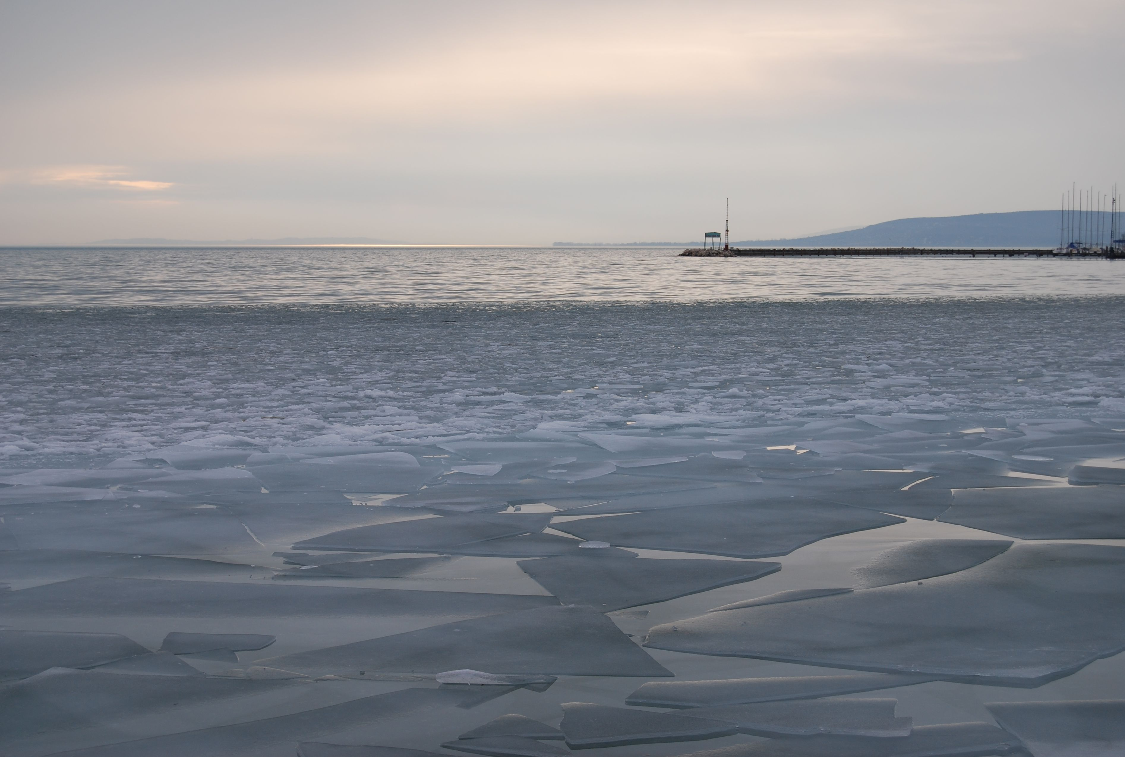 Frozen Balaton lake, Hungary